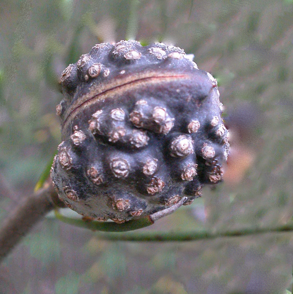 Hekea lissosperma bud